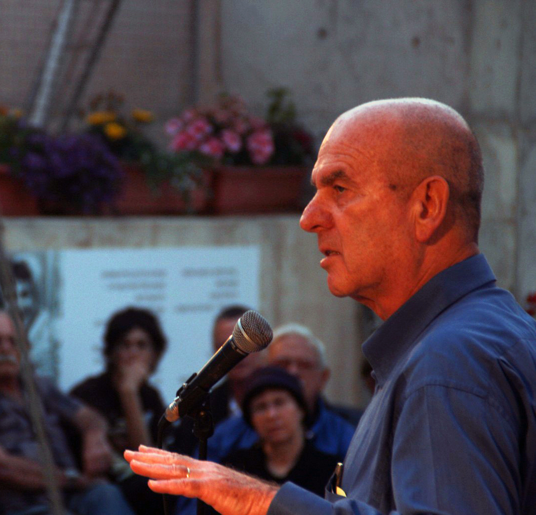 Matan Vilnai carries a speech at the Palmach House